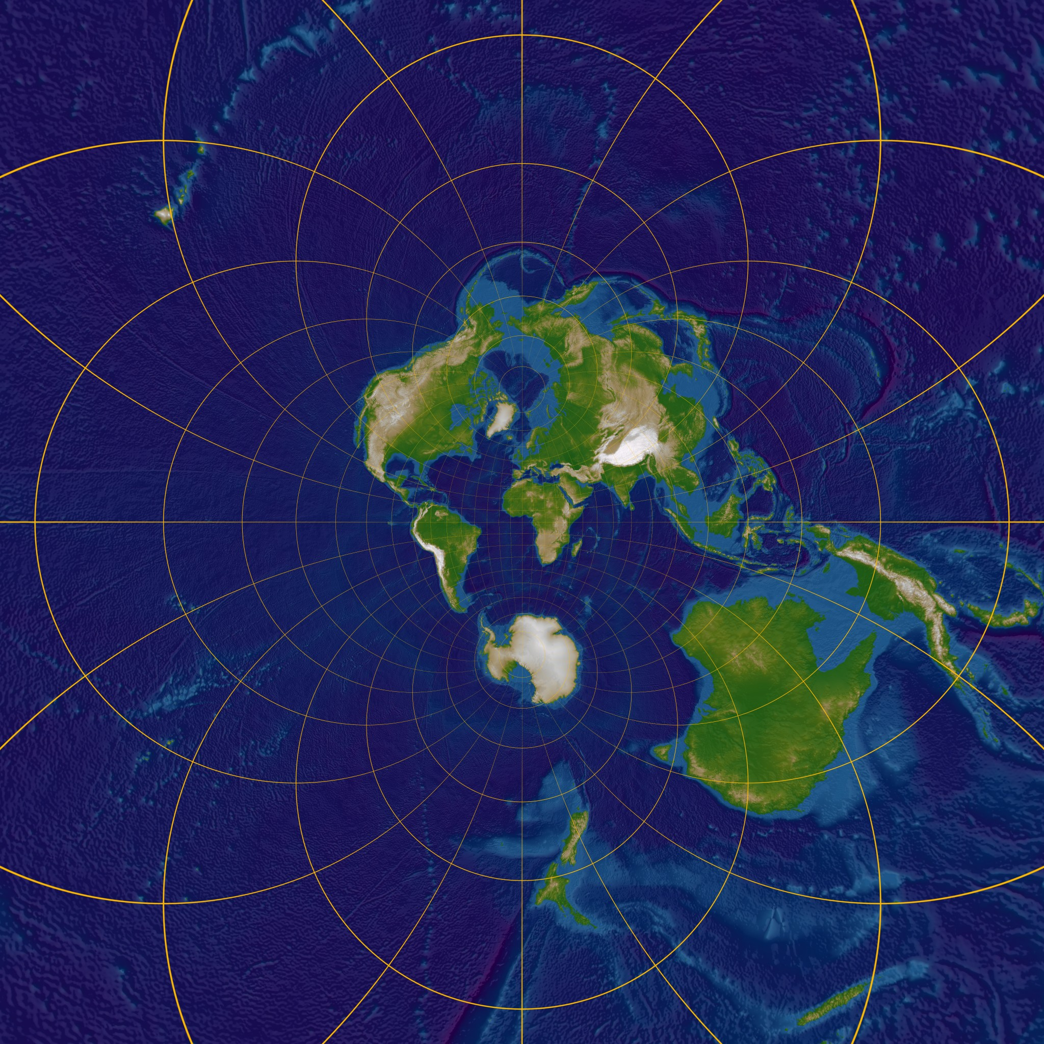 Transversal stereographic projection with extreme extent. Map center is at 0° E, 0° N. Near the upper left there is Hawaii, near the bottom center there is New Zealand.